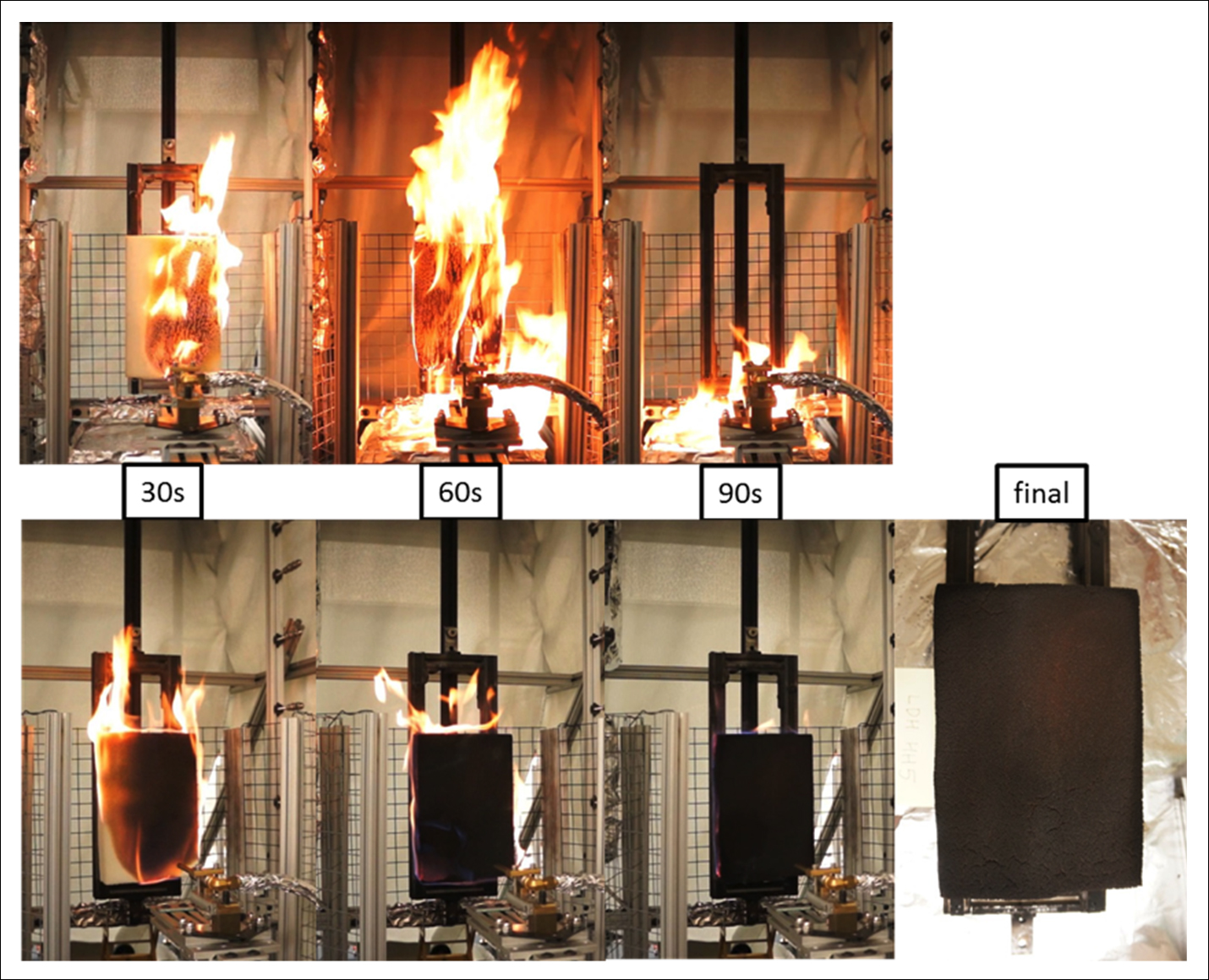 Open-flame tests compare the flammability of untreated polyurethane foam (top) and an identical foam sample surface treated with a sandwich-like coating incorporating layered double hydroxides. By 90 seconds after ignition the untreated foam is completely consumed. The experimental flame retardant formed a protective residue that caused the size of the flames to decrease and then to extinguish. Credit: NIST Disclaimer: Any mention of commercial products within NIST web pages is for information only; it does not imply recommendation or endorsement by NIST. Use of NIST Information: These World Wide Web pages are provided as a public service by the National Institute of Standards and Technology (NIST). With the exception of material marked as copyrighted, information presented on these pages is considered public information and may be distributed or copied. Use of appropriate byline/photo/image credits is requested.